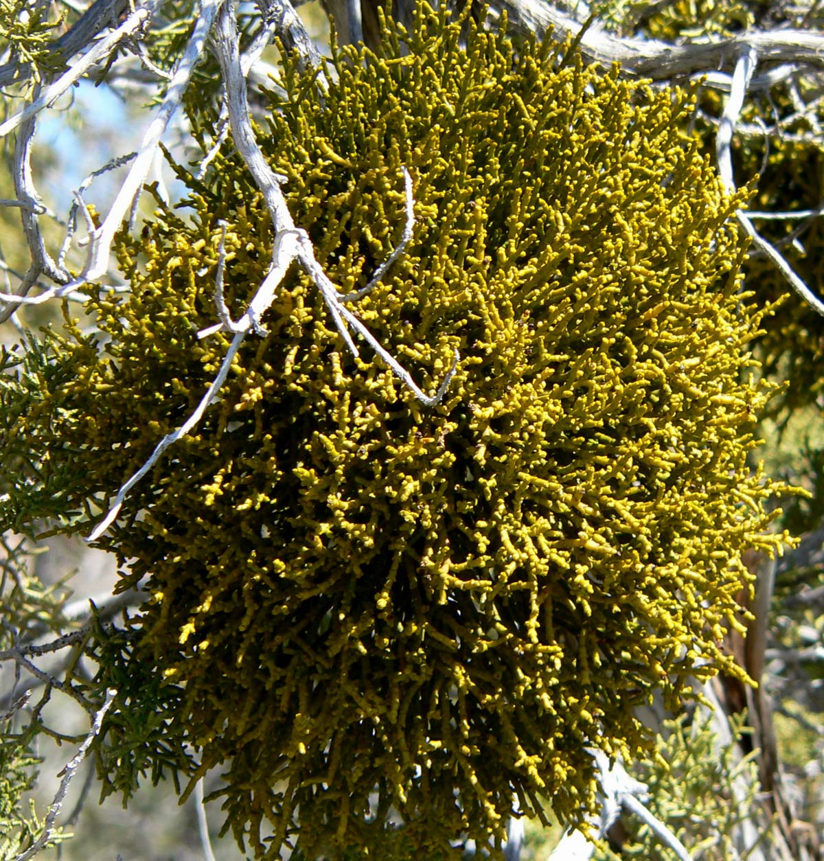 Photo of Phoradendron juniperinum (juniper mistletoe) in Red Rock Canyon, Nevada